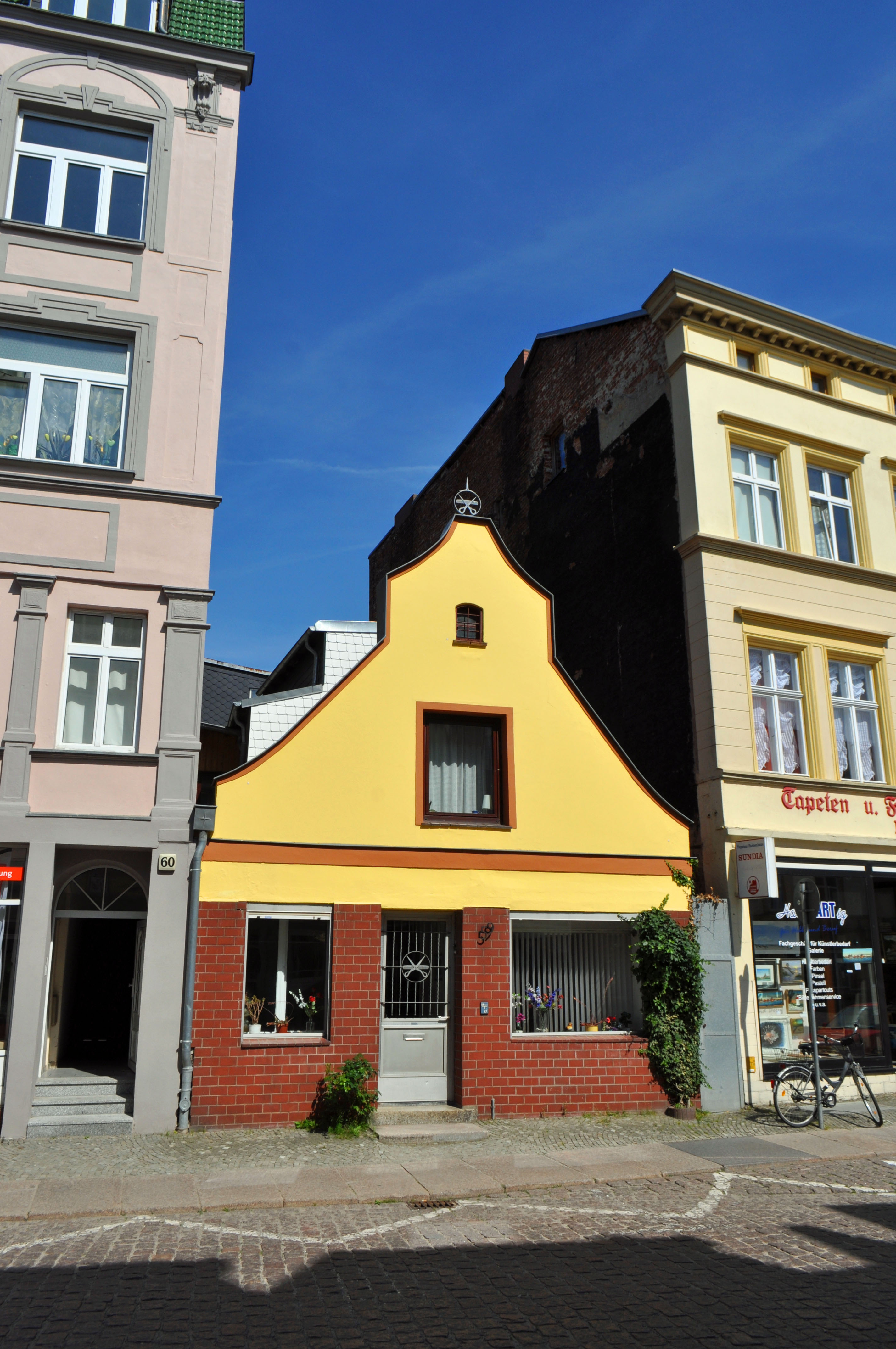 Stralsund, Wasserstraße 59 This is a photograph of an architectural monument.